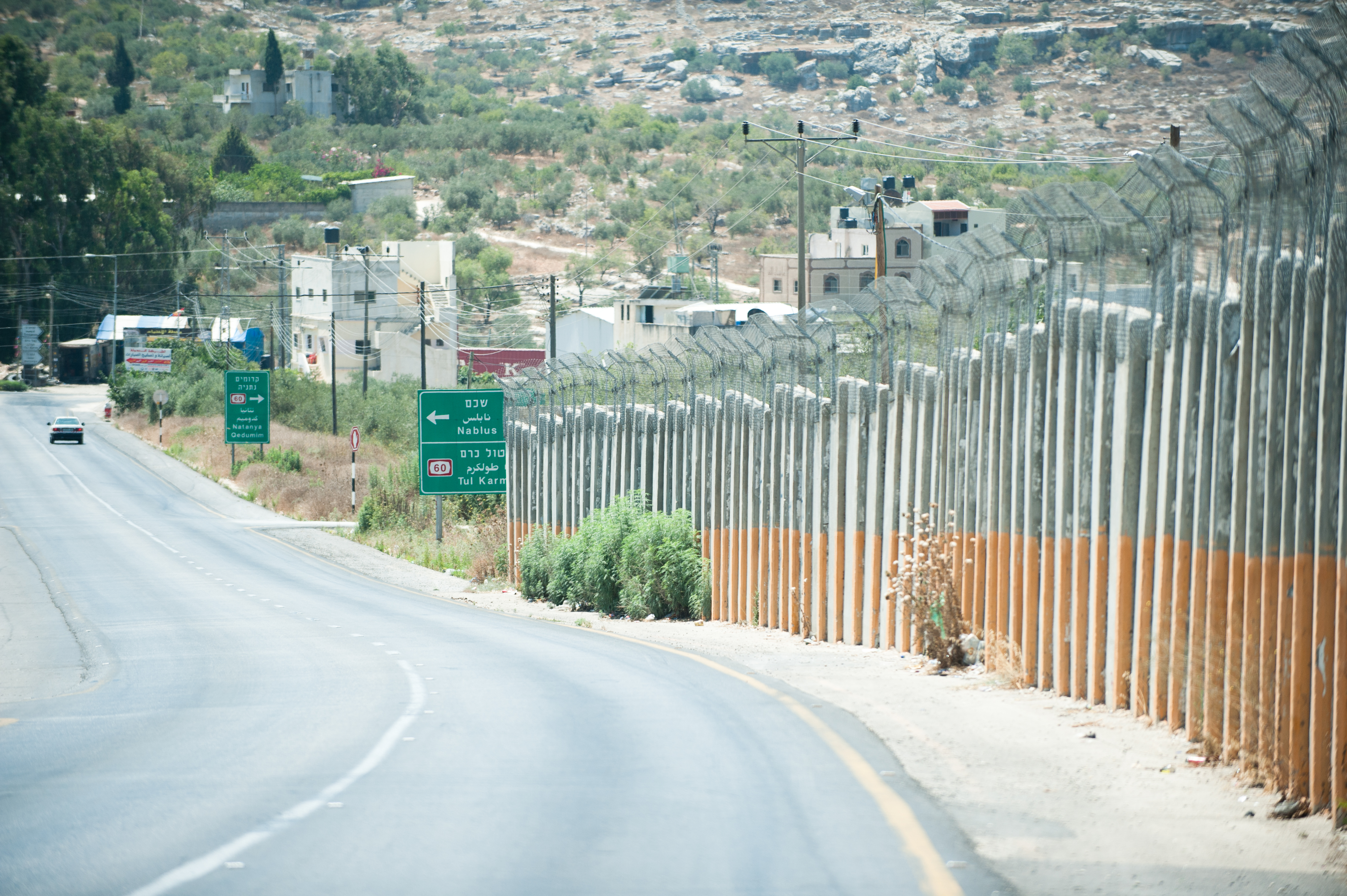 On the road from Jenin to Nablus, West Bank, Palestine (approaching Shomron Junction from the north). The wall on the right separates the settlement of Shavei Shomron from the road.